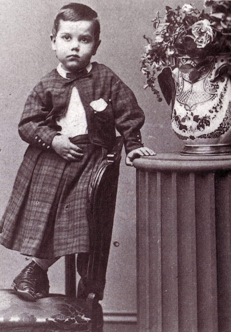 Jewelry designer Paulding Farnham at approximately age 4 in 1864.